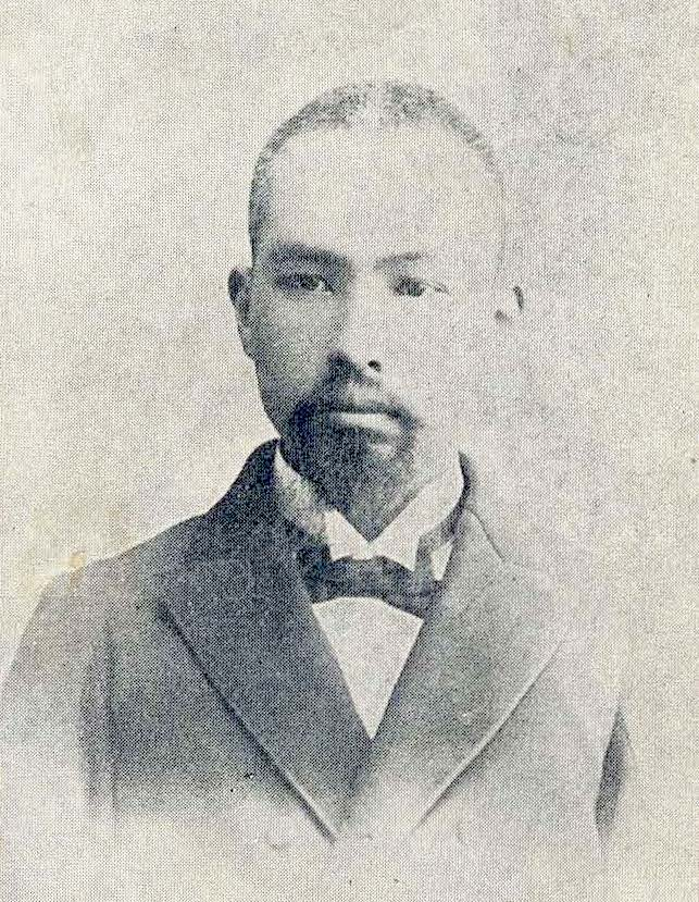 Ogawa Naoyoshi 小川 尚義